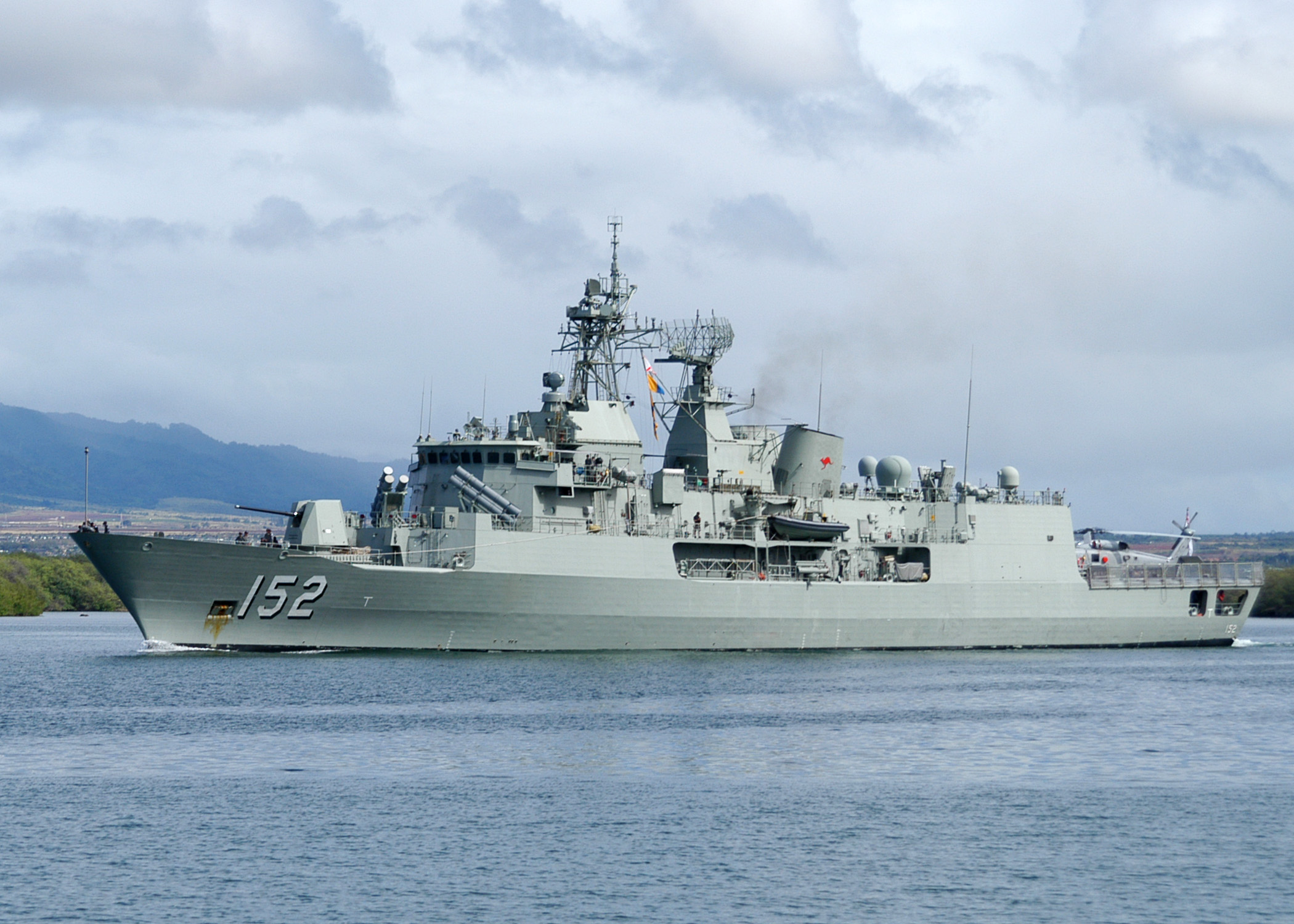 PEARL HARBOR (July 7, 2010) The Australian Anzac-class frigate HMAS Warramunga (FFH 152) departs Joint Base Pearl Harbor-Hickam to support Rim of the Pacific (RIMPAC) 2010 exercises. RIMPAC is a biennial, multinational exercise designed to strengthen regional partnerships and improve multinational interoperability. (U.S. Navy photo by Mass Communication Specialist 1st Class Jason Swink/Released)